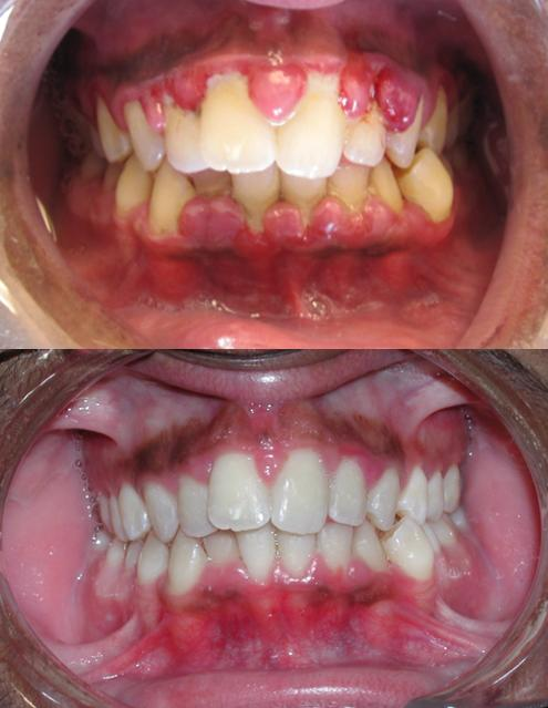 Really bad gingivitis, before and after scaling.